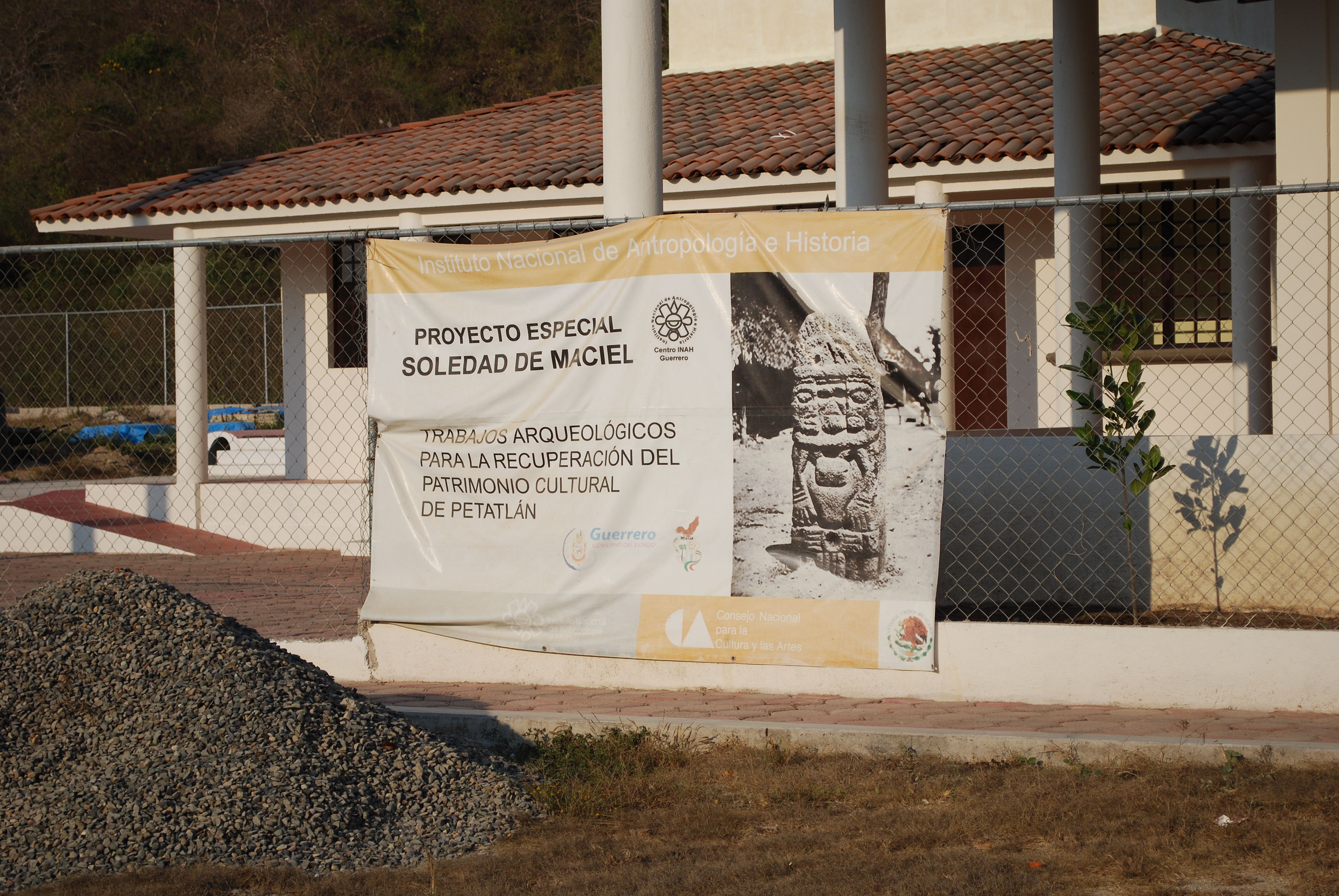 Sign for the Soledad de Maciel archeological site in Petatlán, Guerrero, Mexico